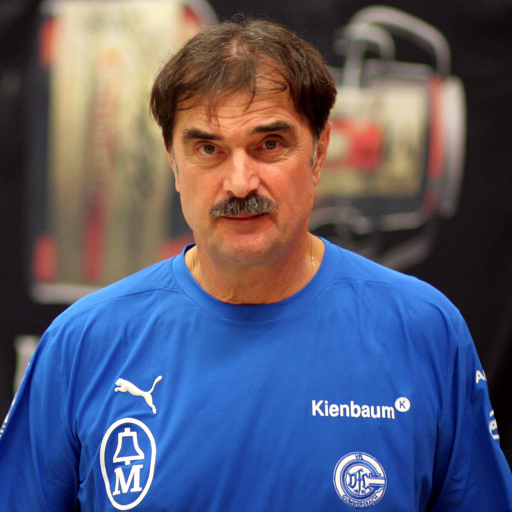 Sead Hasanefendić, handball coach from VfL Gummersbach, on August 30th, 2008 in Ehingen prior a game for the Schlecker Cup 2008